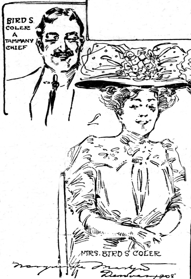 Brooklyn politician Bird S. Coler and wife Emily Moore as sketched at the Democratic National Convention by Marguerite Martyn in July 1908, published in the St. Louis Post-Dispatch